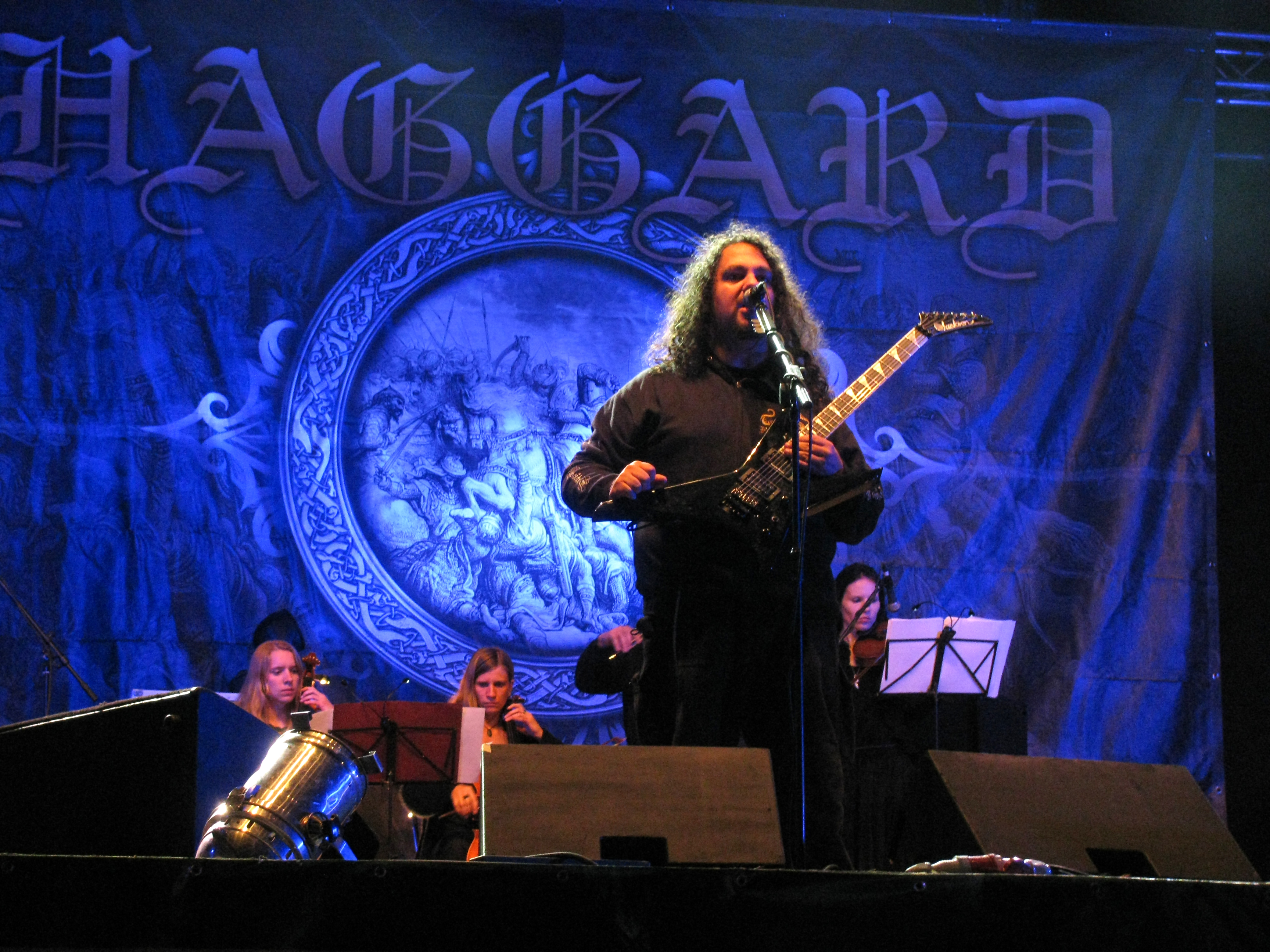 Haggard playing at Global East Rock Festival 2010